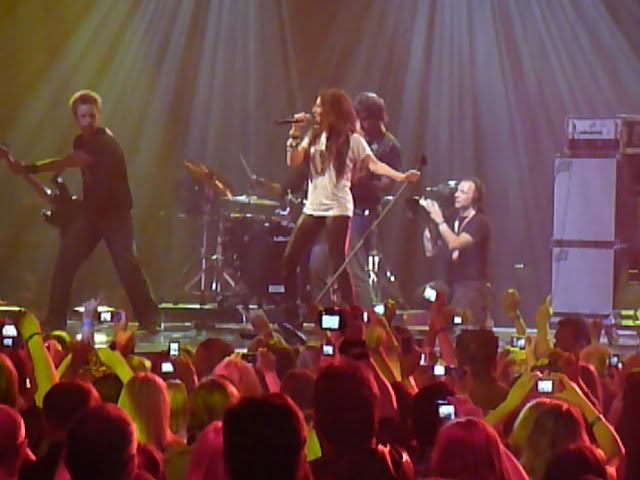 Tisdale singing "It's Alright It's Ok" in Germany.